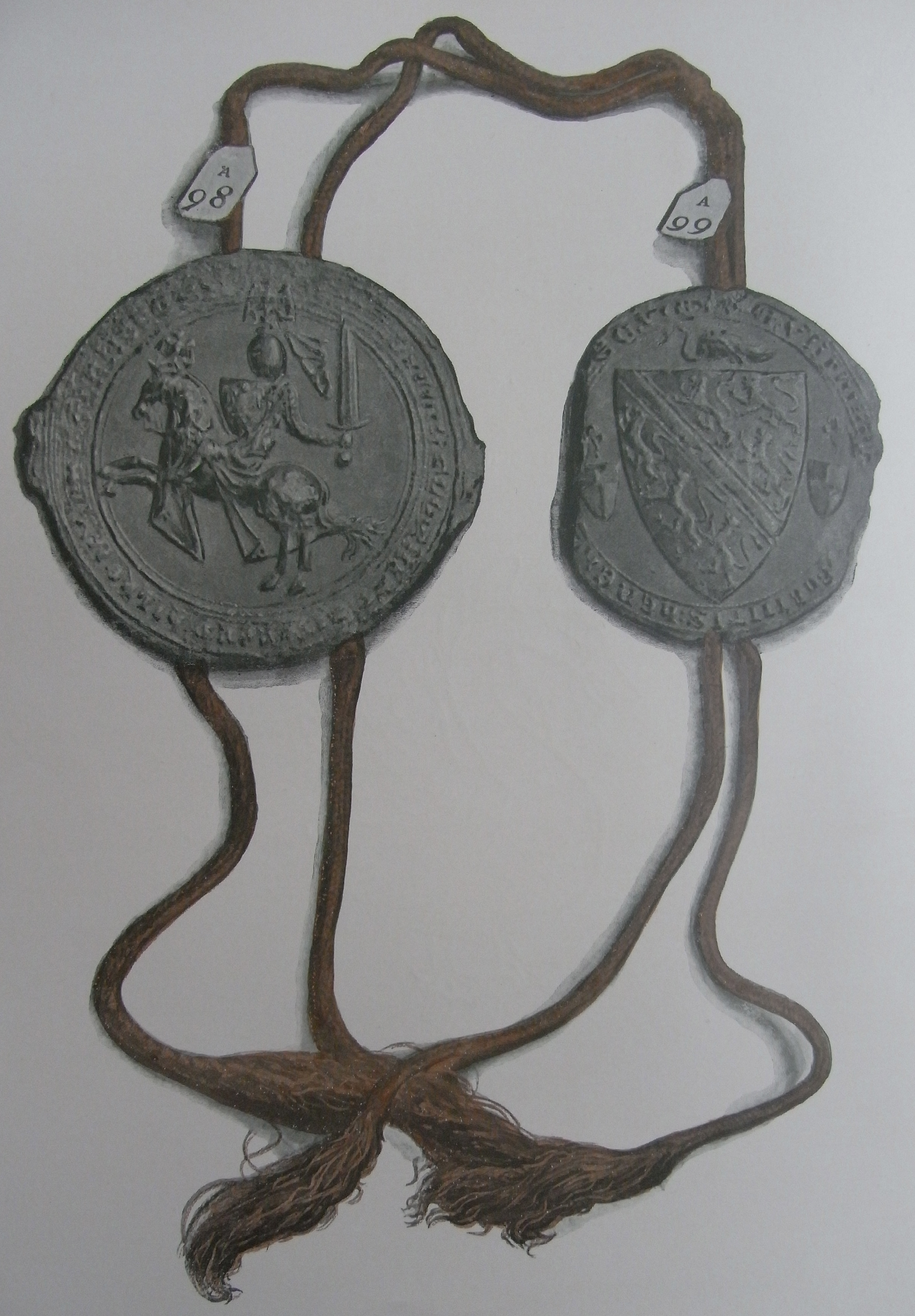 Cord 2 of seals appended to Exemplar A of Barons' Letter 1301